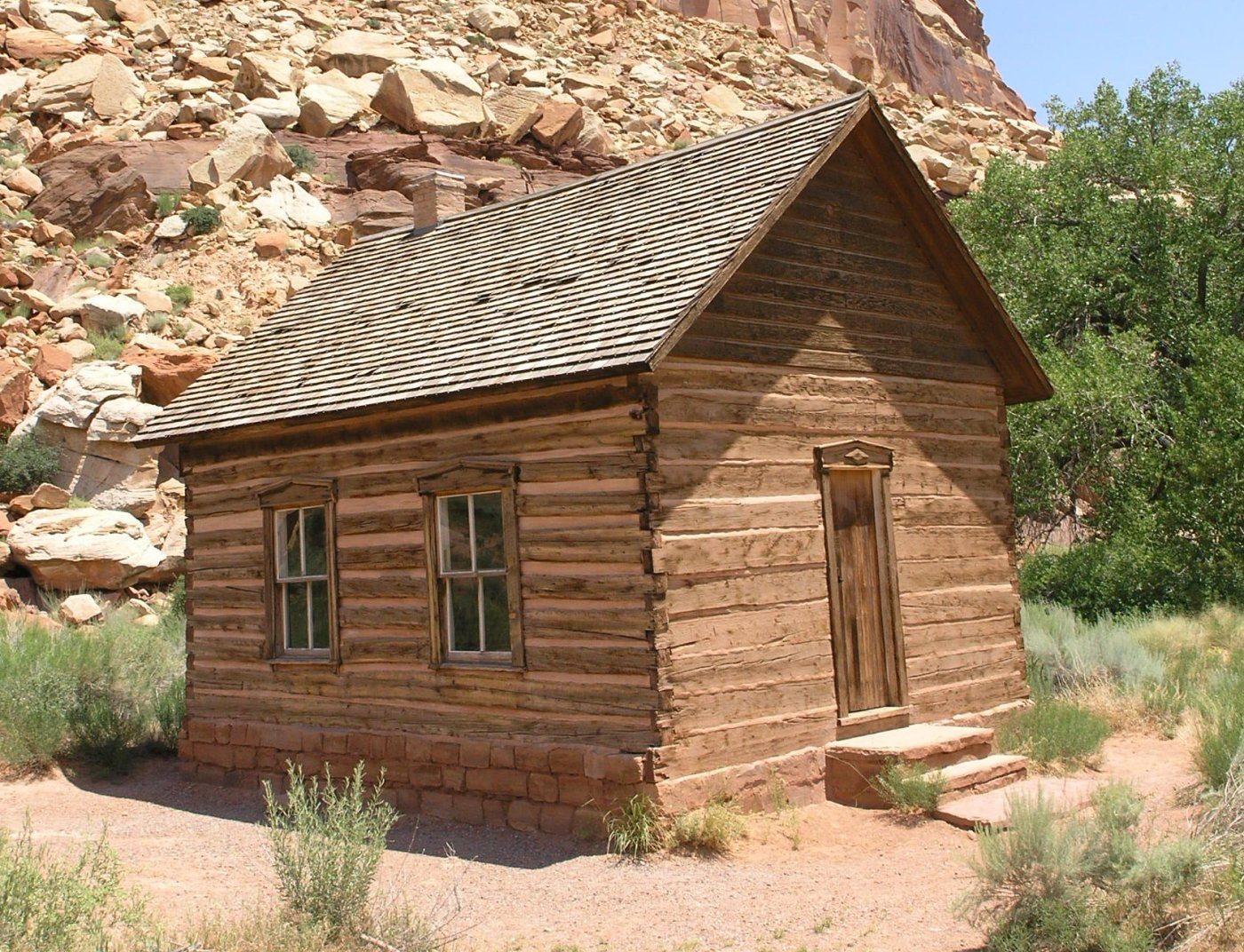 Picture taken by Daniel Mayer in late June 2005.